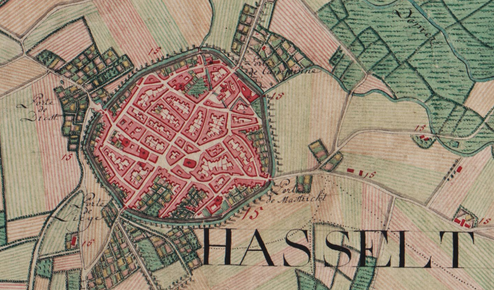 Hasselt as depicted on the 18th century Ferraris maps